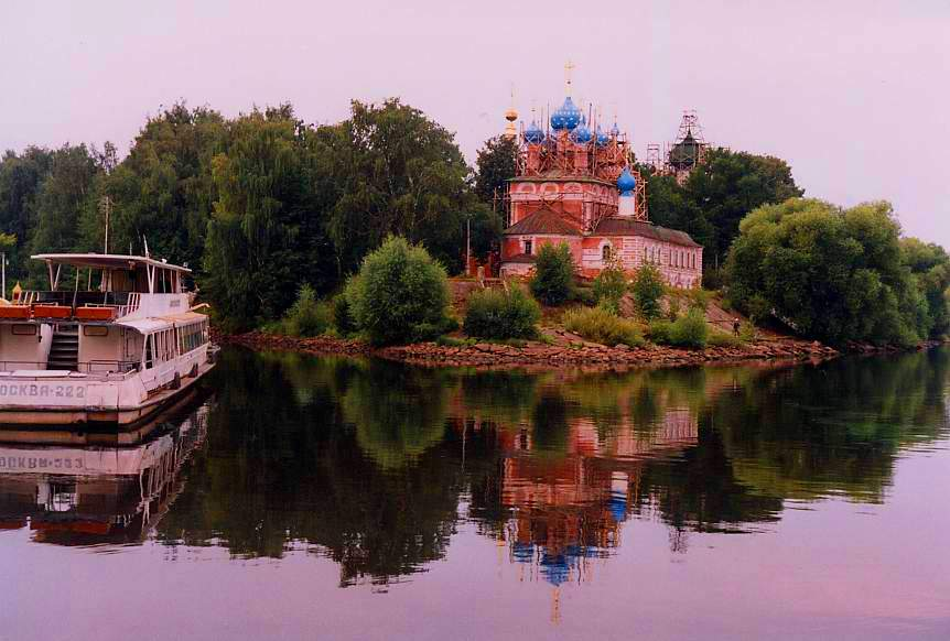 Church of St. Demetrius on Blood in Uglich (17th century) - commemorates the murder of Tsarevich Demetrius